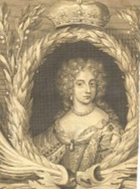 Sophia Amalia of Nassau-Siegen, duchess of Courland and Semigallia